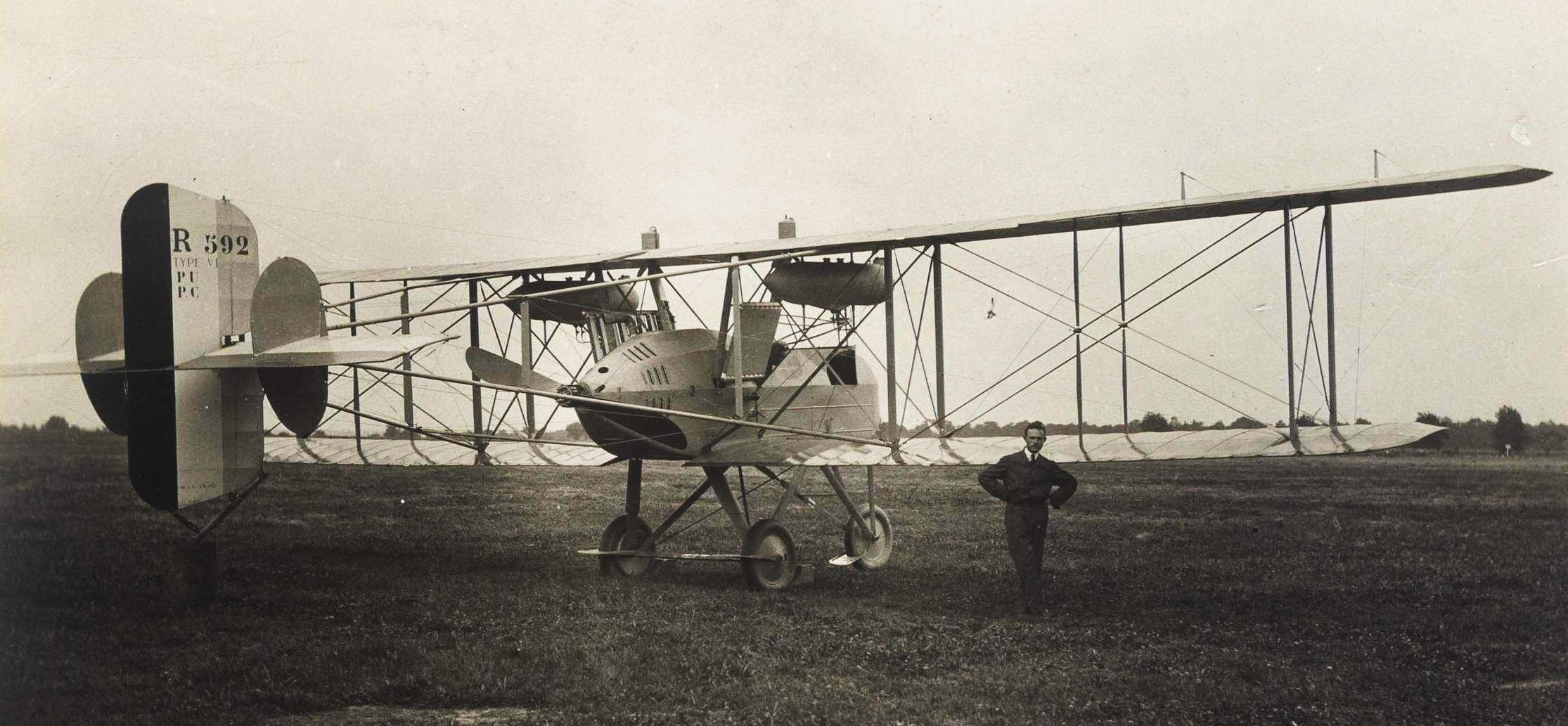 Bréguet type VI B.2 bomber powered by a Salmson A9 radial engine of 240 HP at the Bréguet factory in Vélizy, 1916